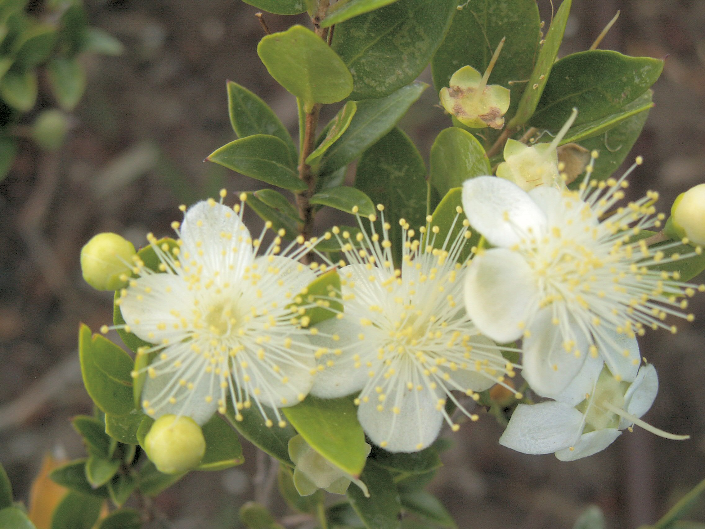 Myrtus flowering.